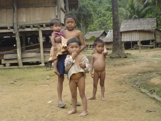 (Khmu children in a Khmu village in the mountains near Luang Prabang, Laos 2006)